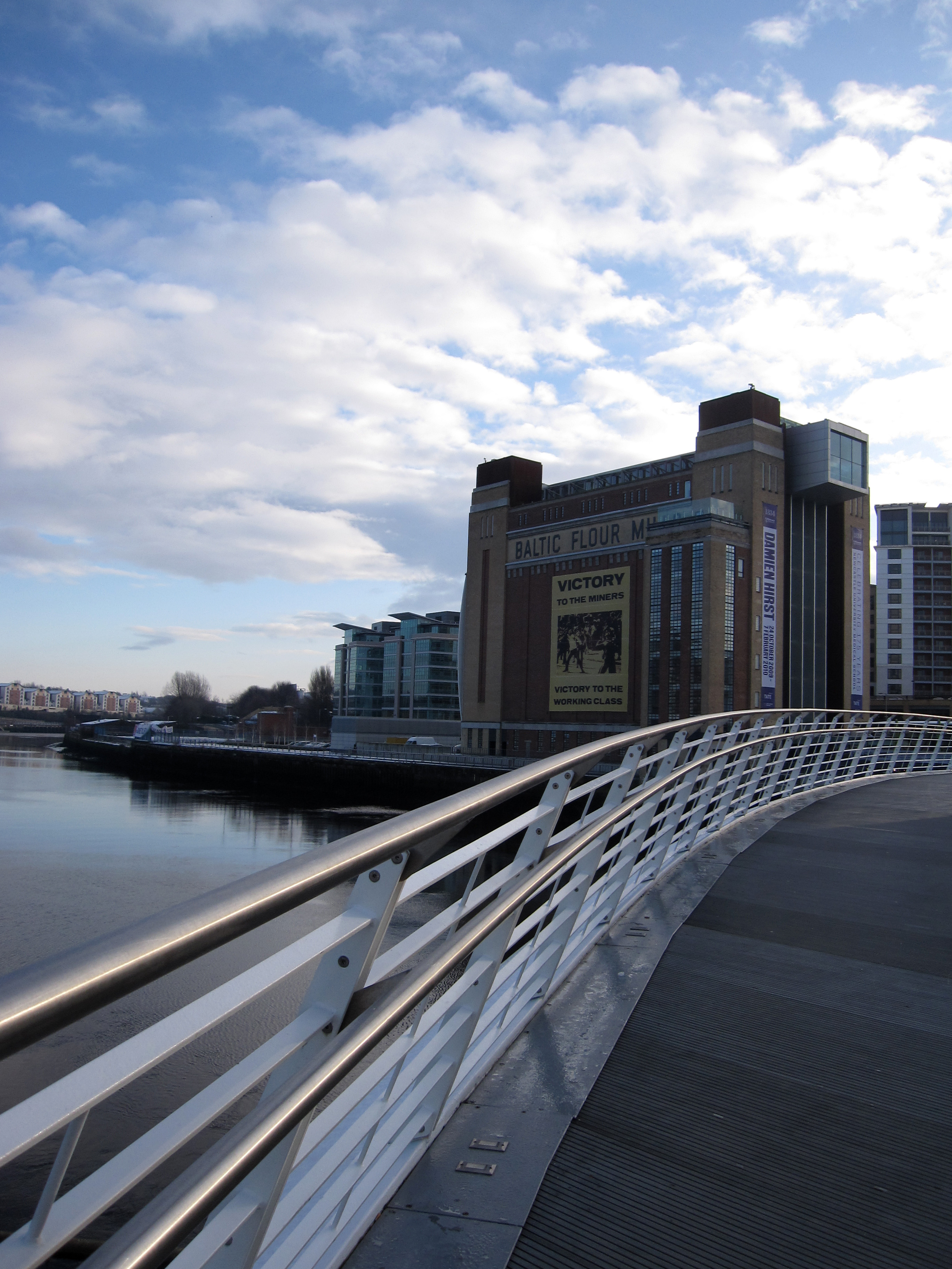 The Baltic Centre for Contemporary Art viewed from the Gateshead Millennium Bridge.